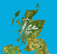 Glasgow's location in Scotland